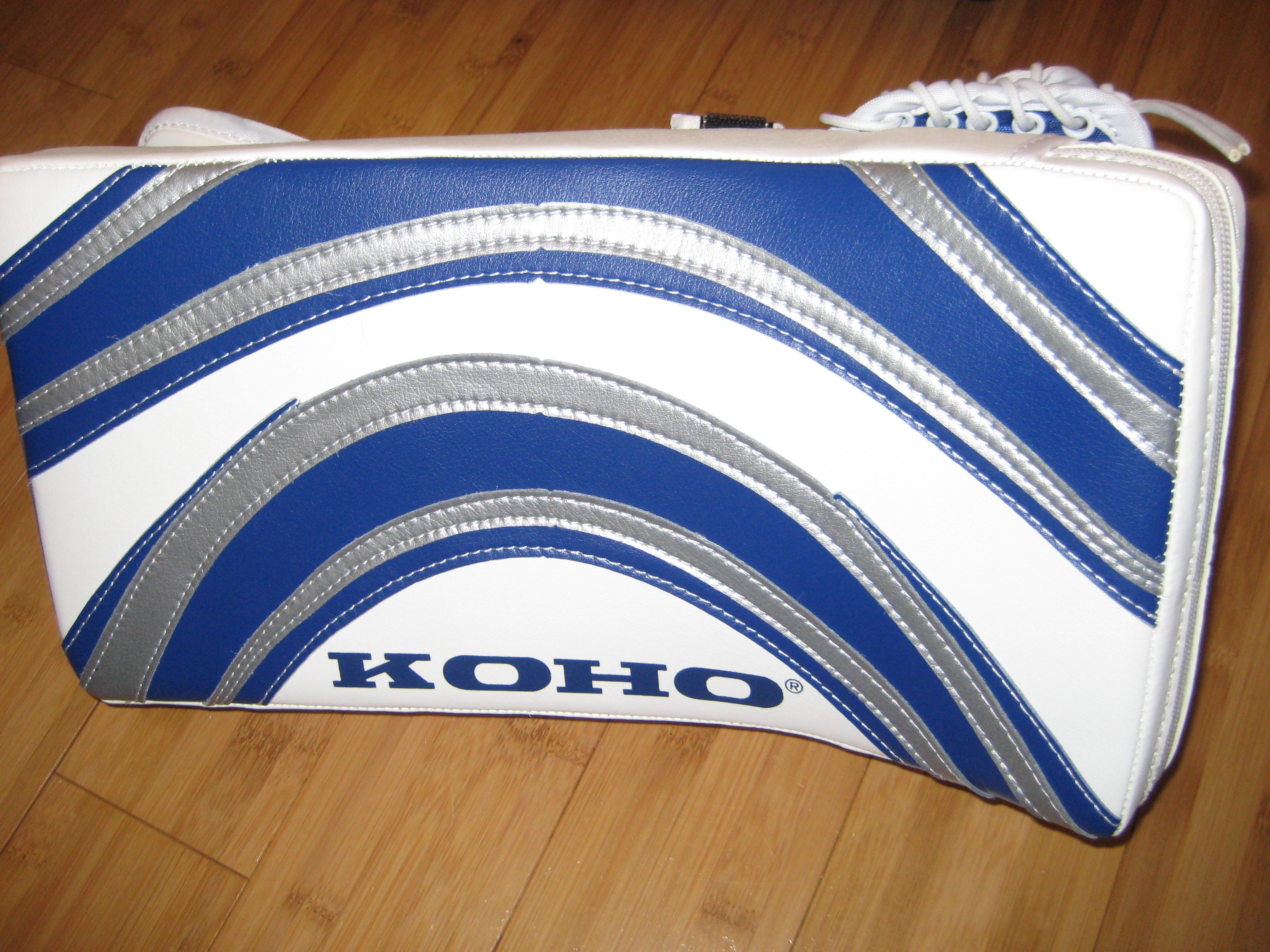 Koho GB700 Senior Pro blocker